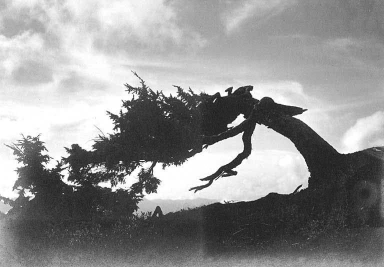 Crooked by Mountain Weather Photographer: Koike, Kyo Subjects (LCTGM): Trees--Washington (State) Mountains--Washington (State) Digital Collection: Modern Photographers Collection Item Number: MPH440 Persistent URL: Visit Special Collections page for information on ordering a copy. University of Washington Libraries. Digital Collections